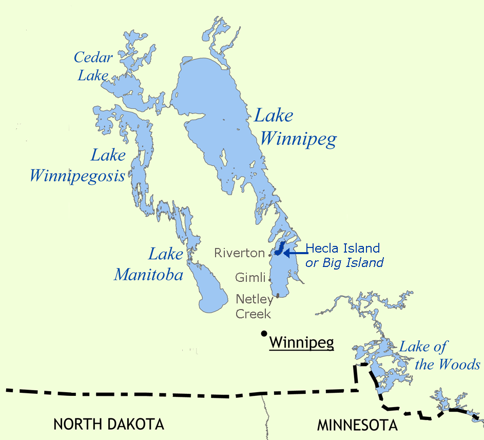 Counicl of Keewatin placenames. Map showing the location of Lake Winnipeg, Lake Manitoba, and Lake Winnipegosis in Manitoba, Canada.